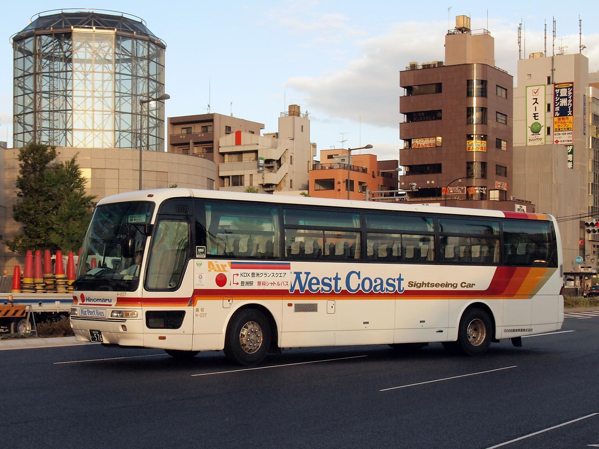 Fleet of Air Port Bus, group of Hinomaru Jidosha Kogyo. Model: Mitsubishi Fuso Aero Bus KL-MS86MP License plate: CBR200 KA-576 Place: Toyosu Station, Koto ward, Tokyo Japan